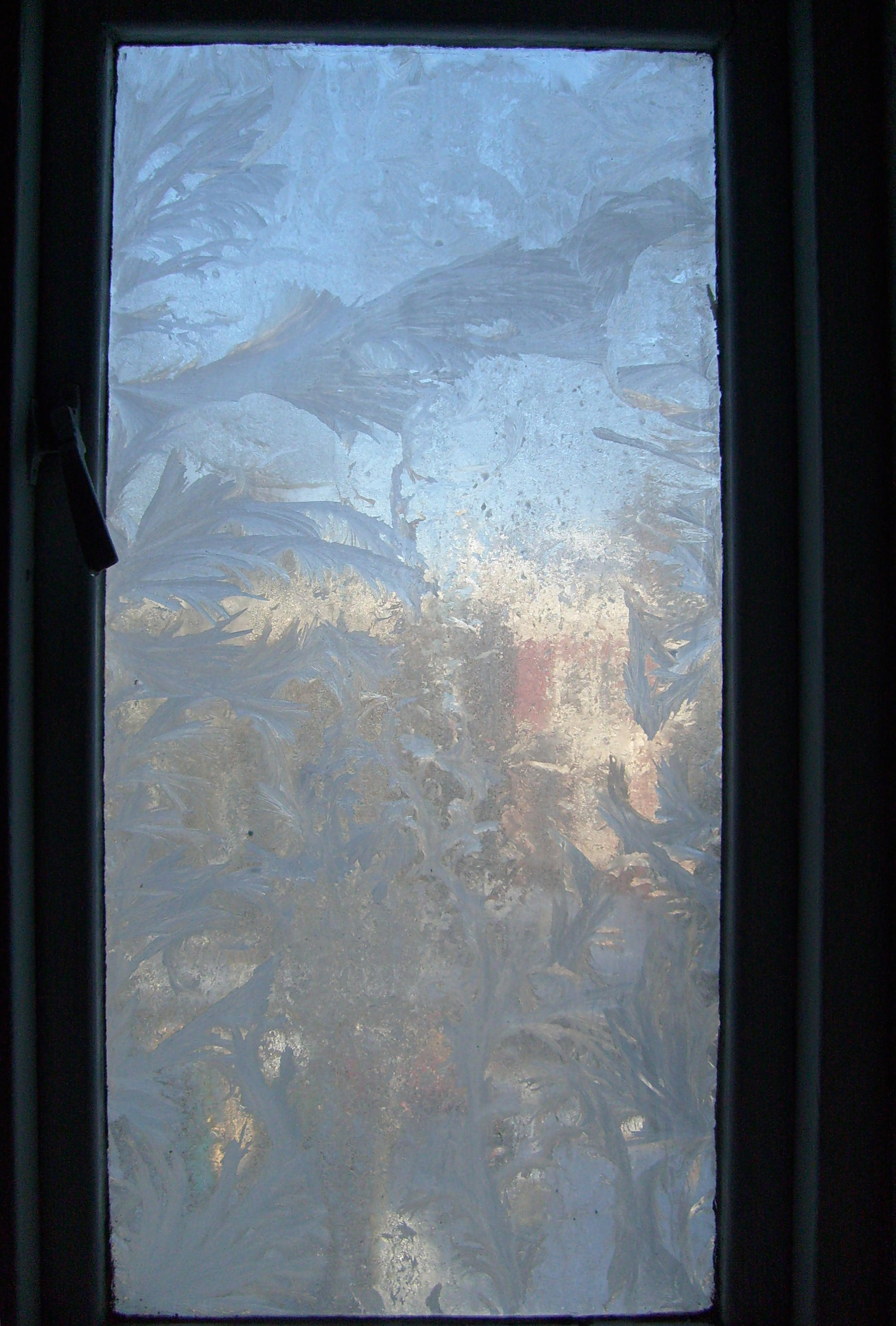 WIndow covered in water crystals 8 Jan 2010, Liverpool